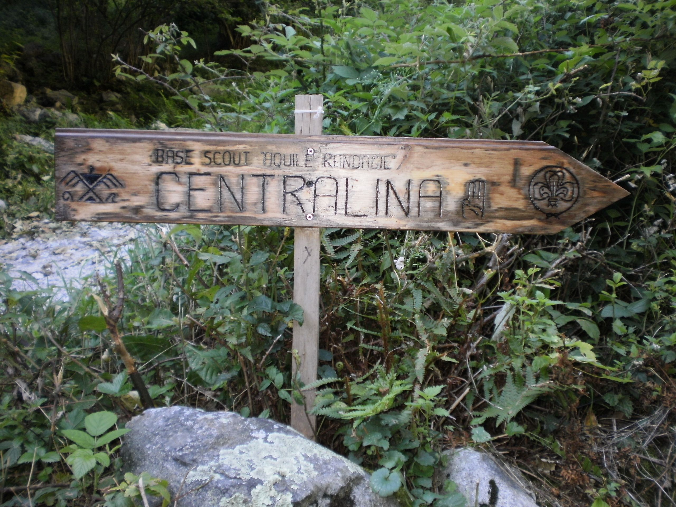 Sign for "La Centralina", scout base in Codera (Novate Mezzola)